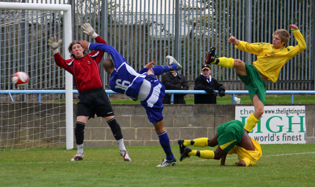 Footballet Goalmouth action at a Wingate and Finchley (blues) home game against rivals Waltham Abbey. The shot went just wide and the game finished 1-1. The buildings of Finchley Lido are just visible through the railings.